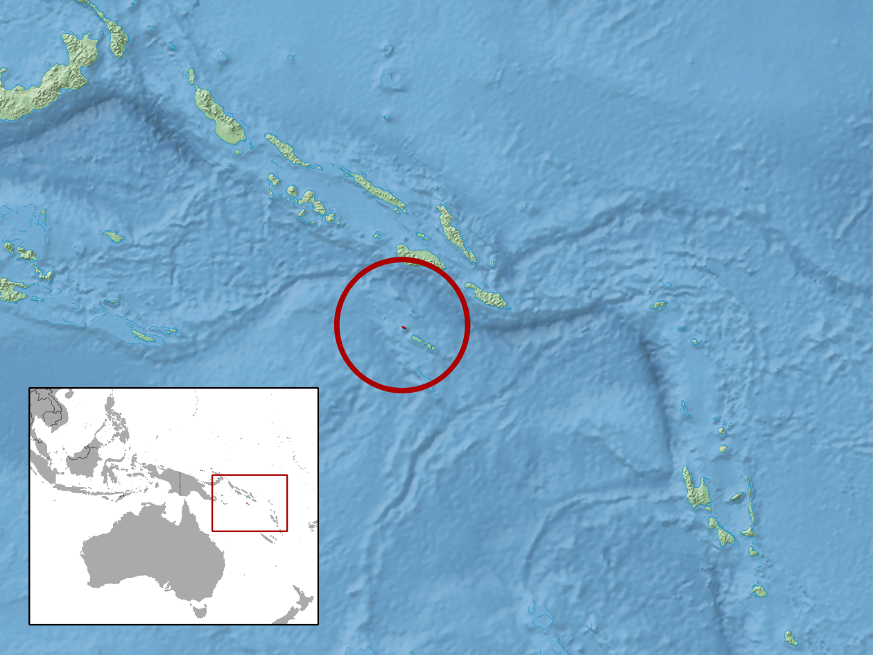 geographic distribution of Emoia isolata